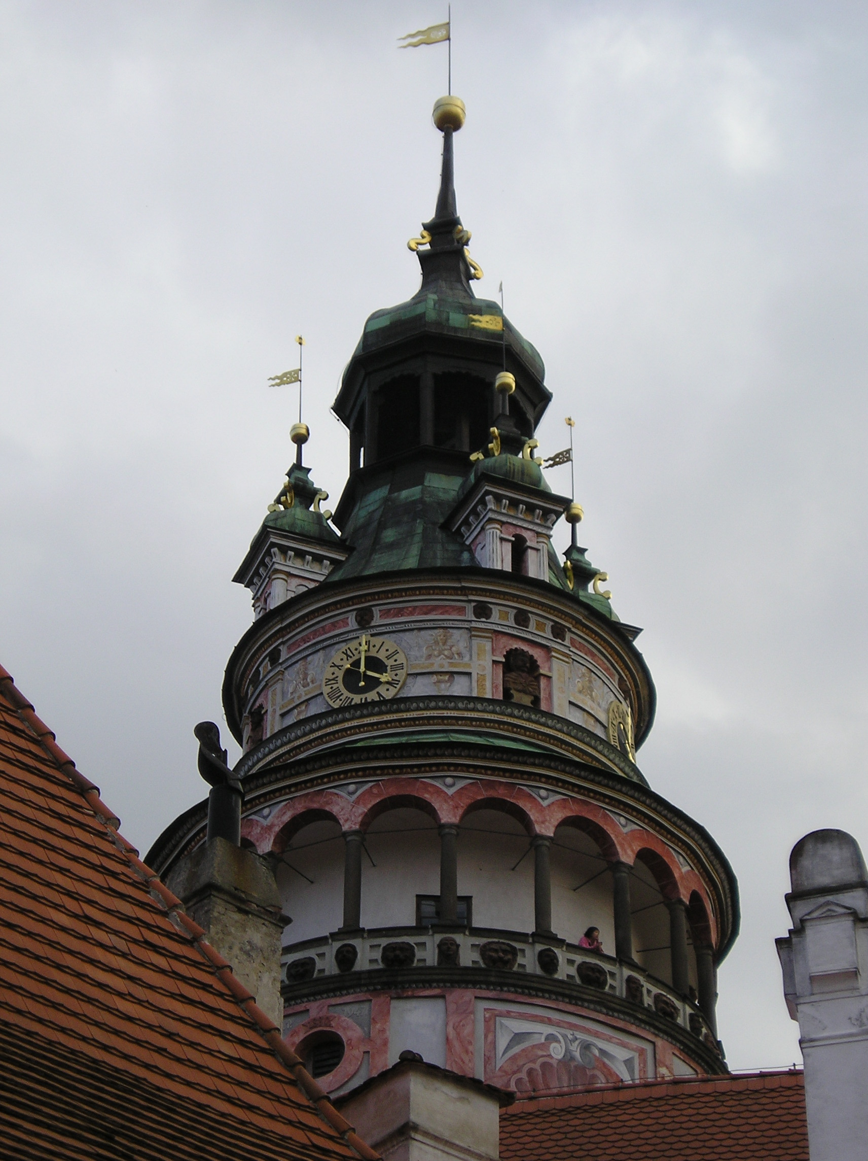 Český Krumlov - Castle Tower